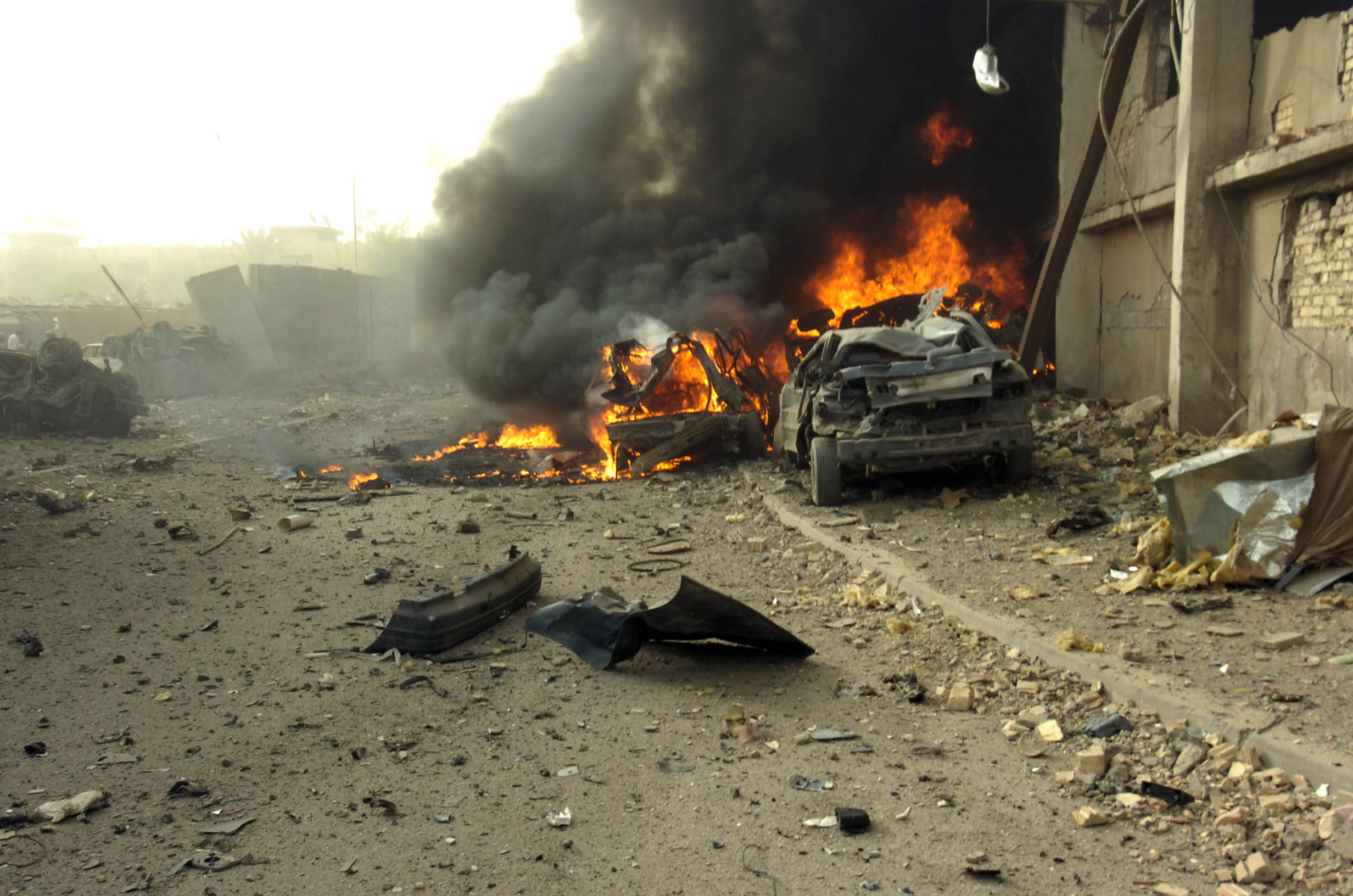 A Vehicle Born Improvised Explosive Devise (VBIED) after exploding on a street outside of the Al Sabah newspaper office in the Waziryia district of Baghdad, Iraq. The VBIED destroyed more than 20 cars, killing two people and wounding as many as 30.